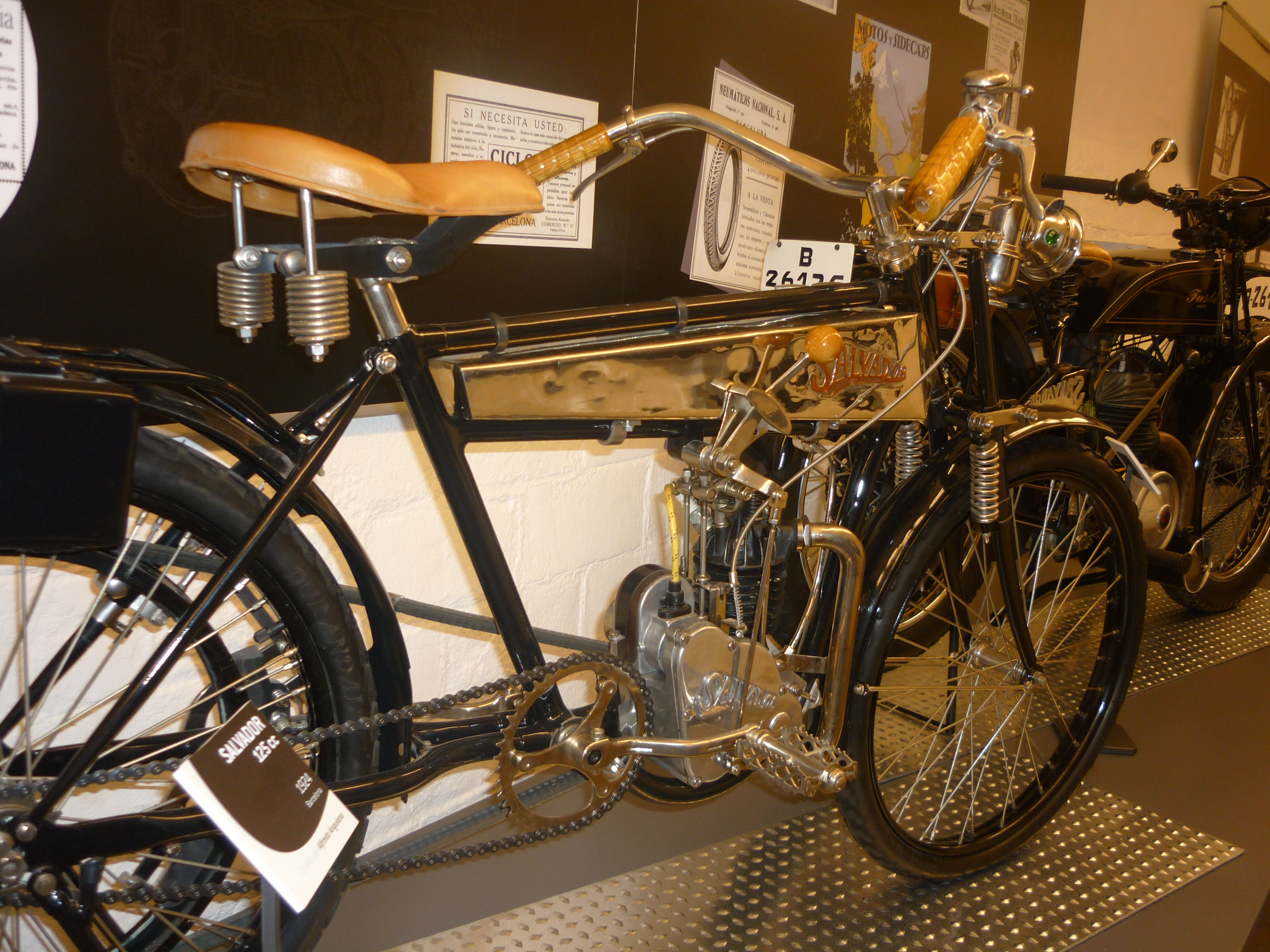 Salvador 125cc (1924).Museu de la Moto de Barcelona (Catalonia).